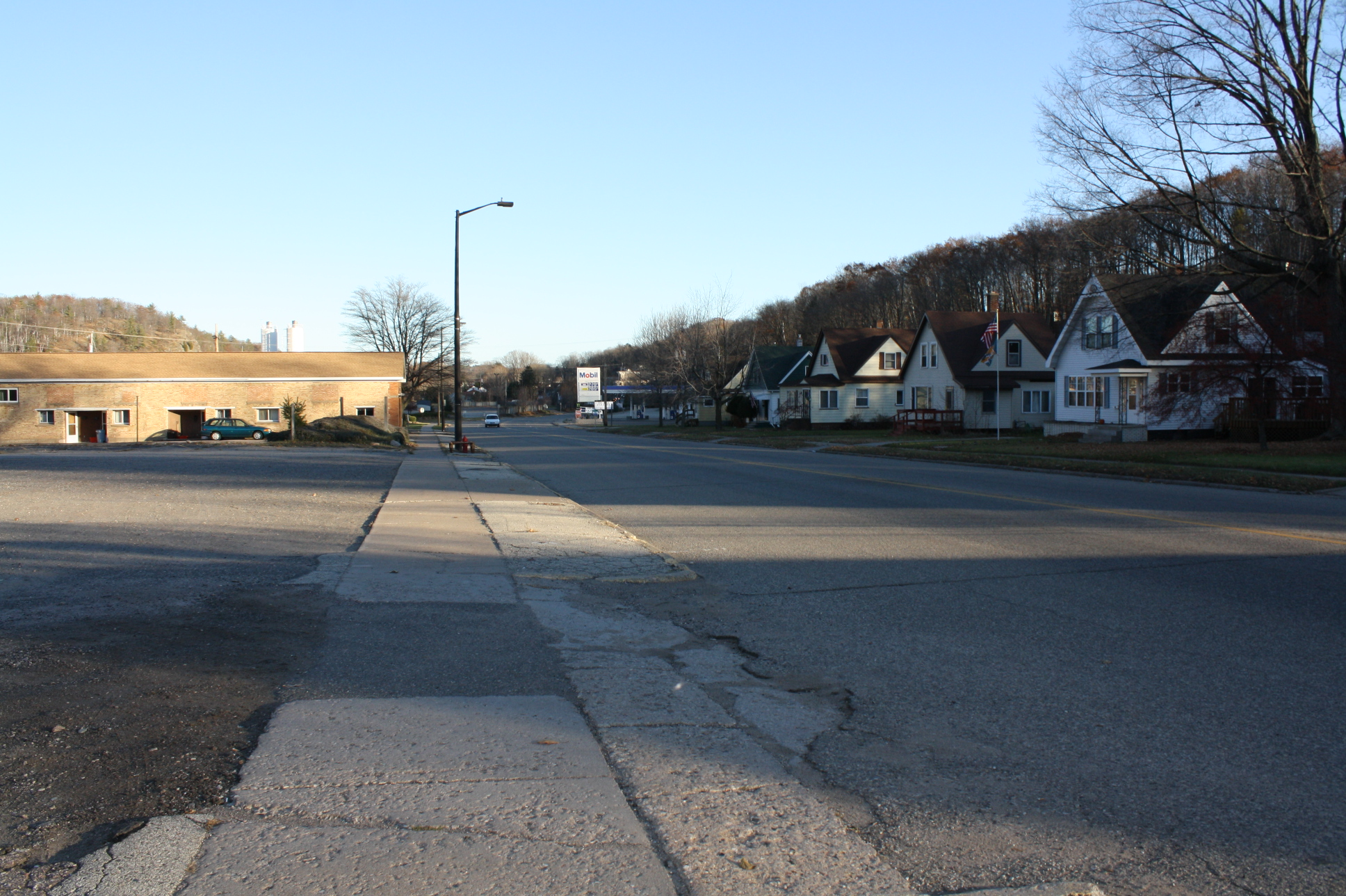 Looking south at Niagara, Wisconsin on U.S. Route 141.